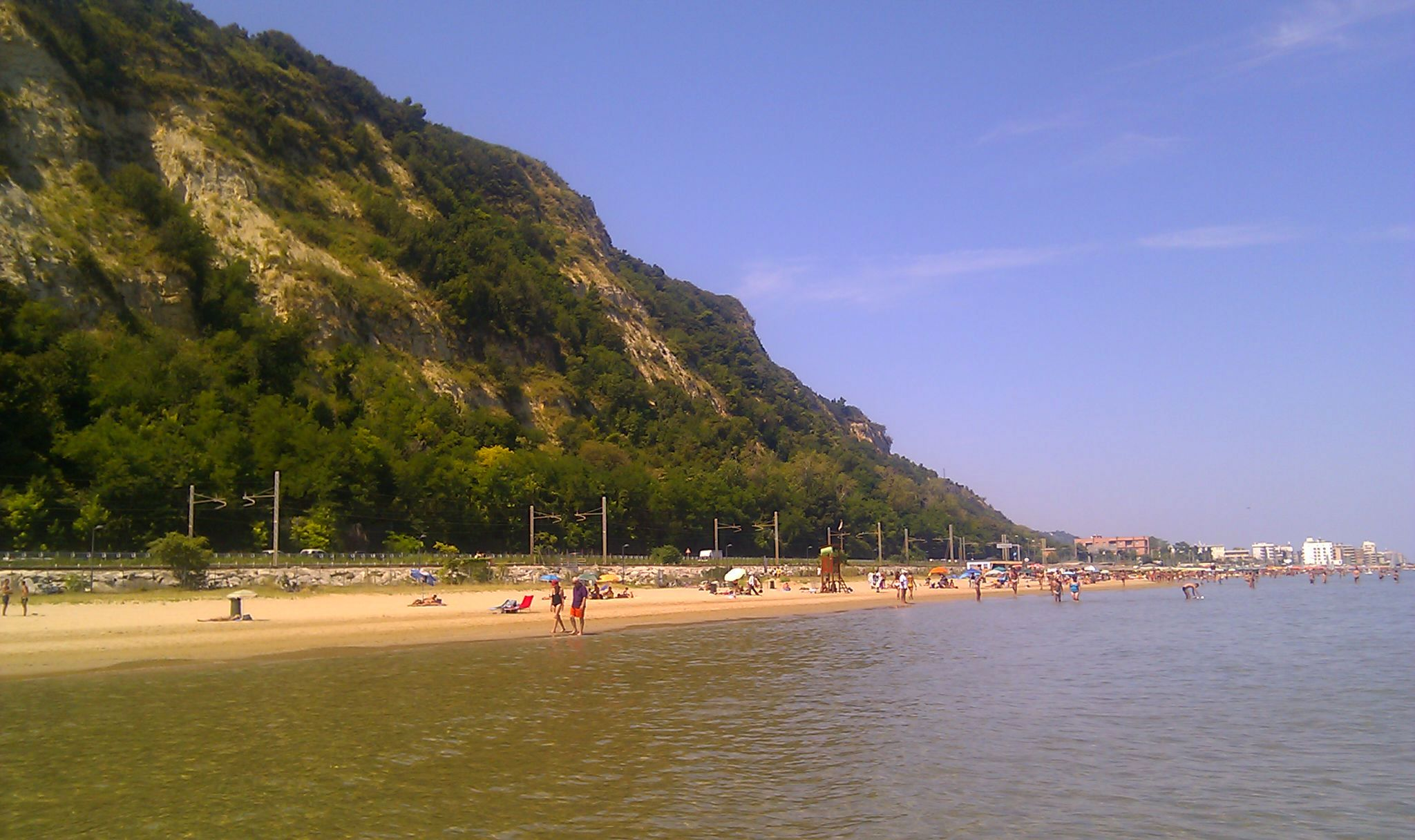 View of the free beach in Pesaro (Italy) with Monte Ardizio in the foreground.